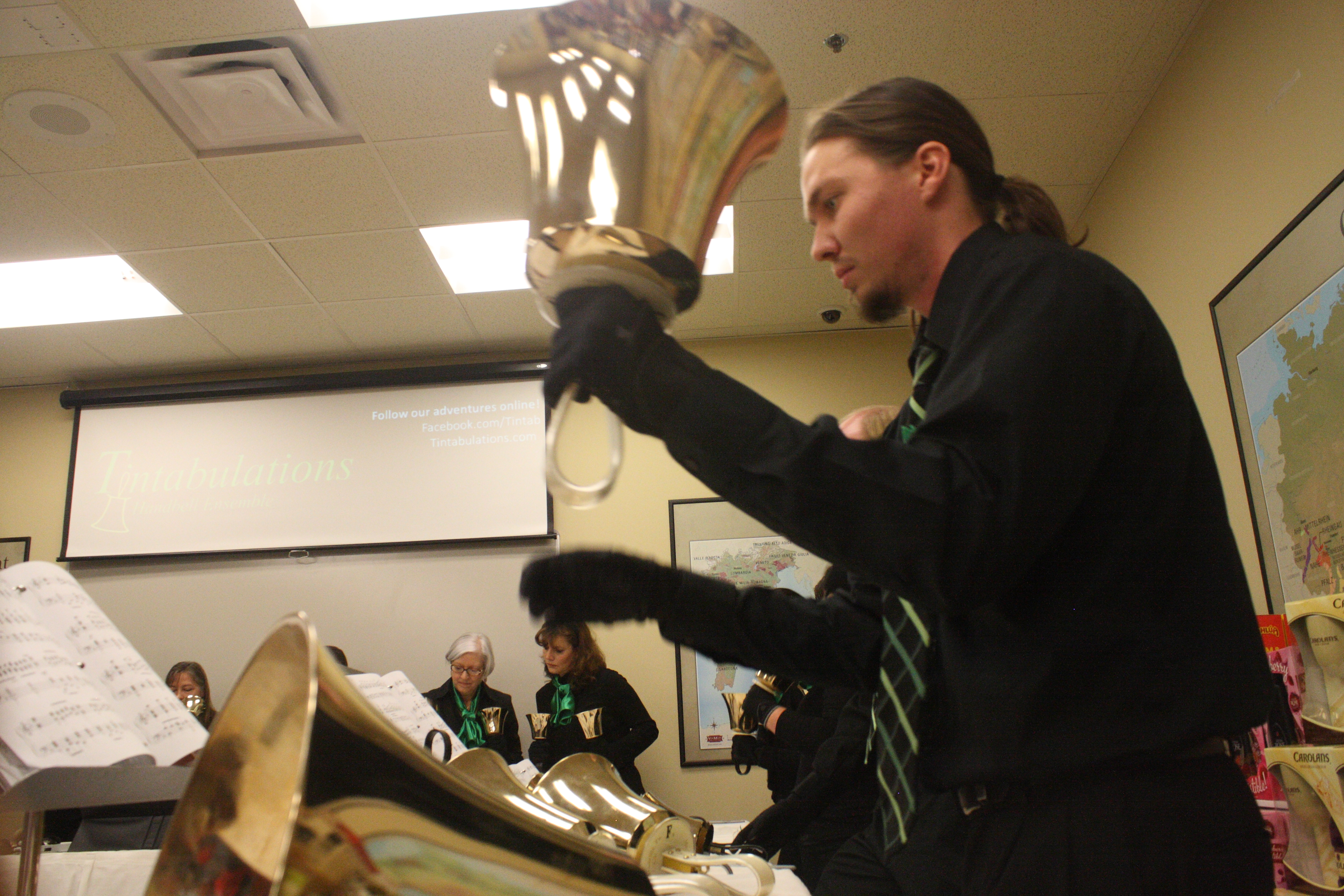 A bell ringer rings during a 2012 concert in Reno, Nevada.